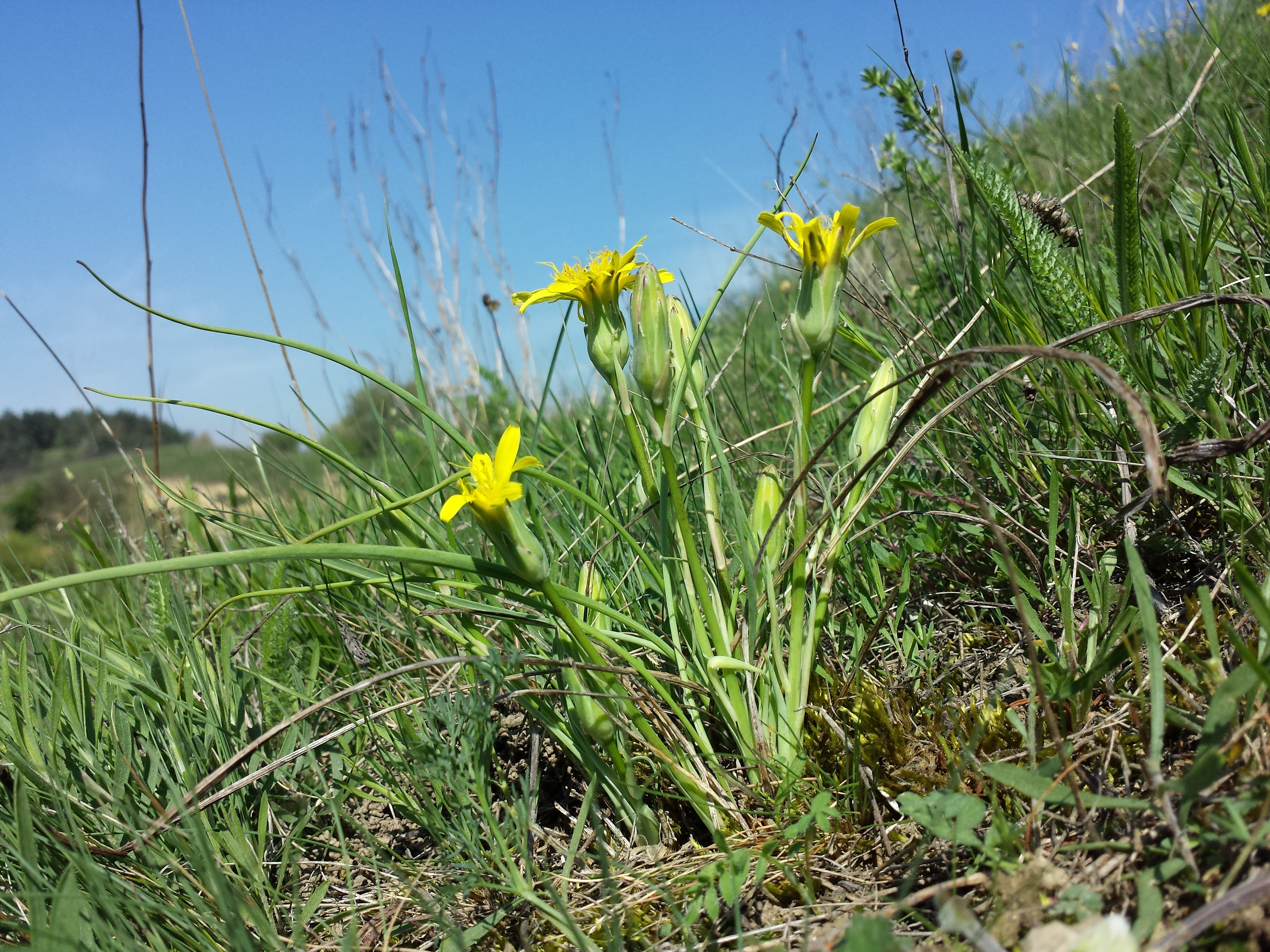 Habitus Taxonym: Scorzonera austriaca ss Fischer et al. EfÖLS 2008 ISBN 978-3-85474-187-9 Location: Loess hill to the west of Großebersdorf, district Mistelbach, Lower Austria - ca. 200 m a.s.l. Habitat: semi-dry grassland